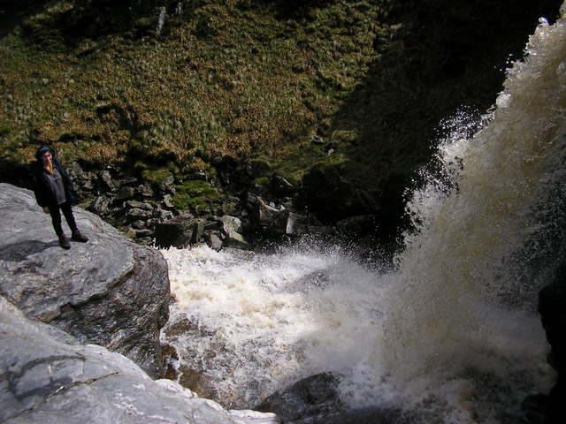 The Falls of Damff Only the upper portion of the falls is visible. There is a further drop of about 40 or 50 feet. Only approach closely with a good head for heights!